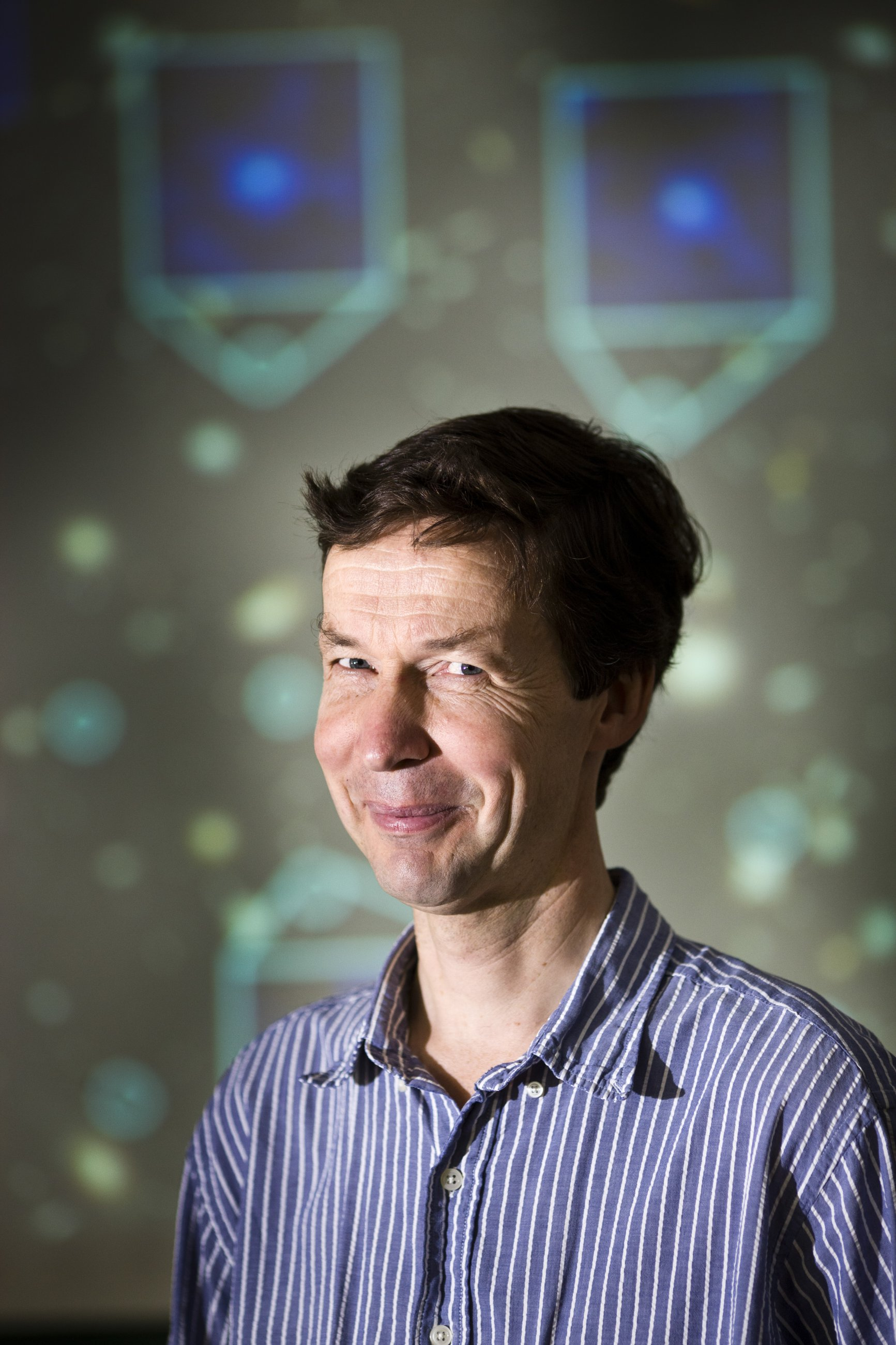 Dutch astronomer Marijn Franx in 2010